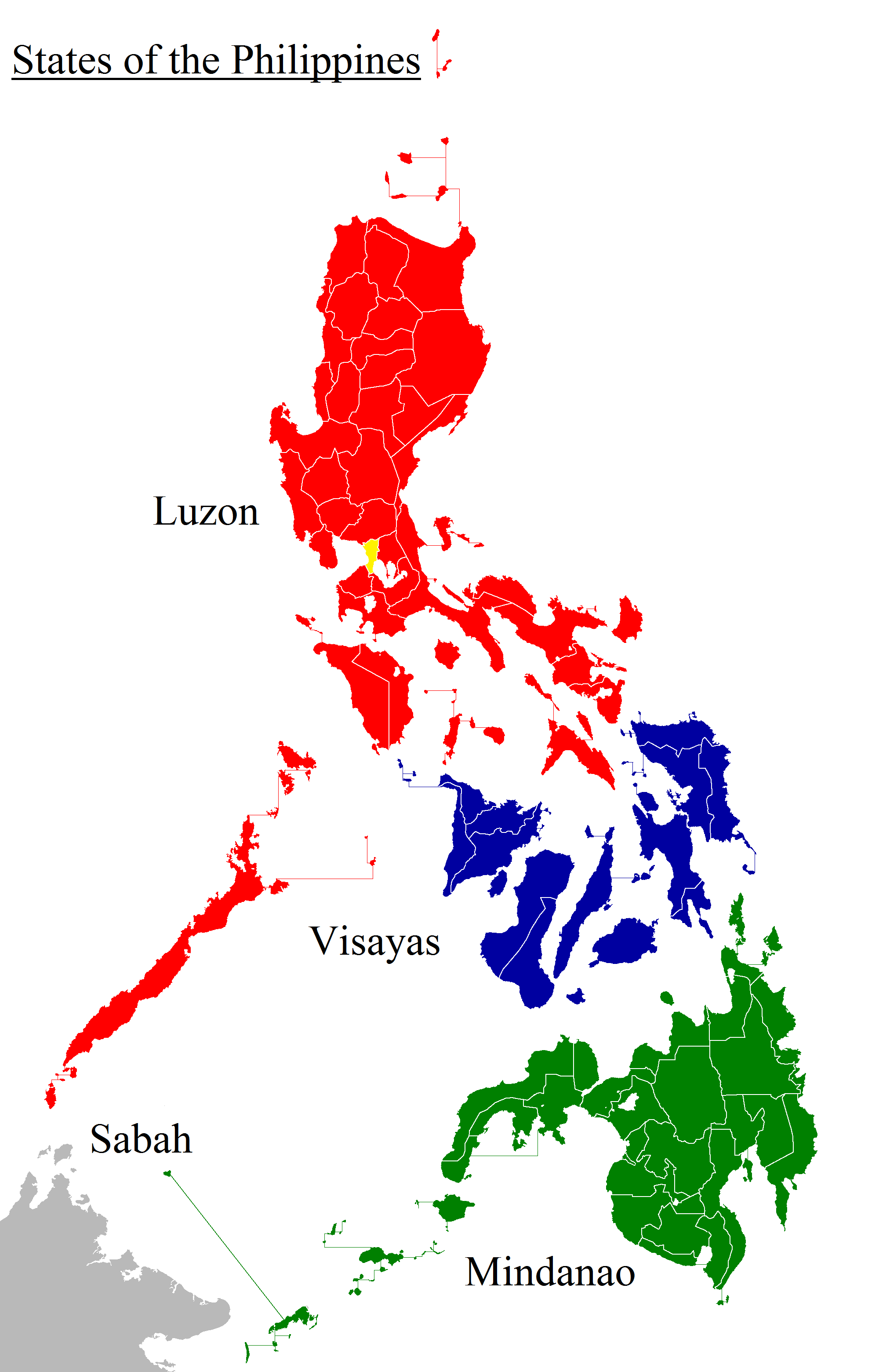 States of the Philippines